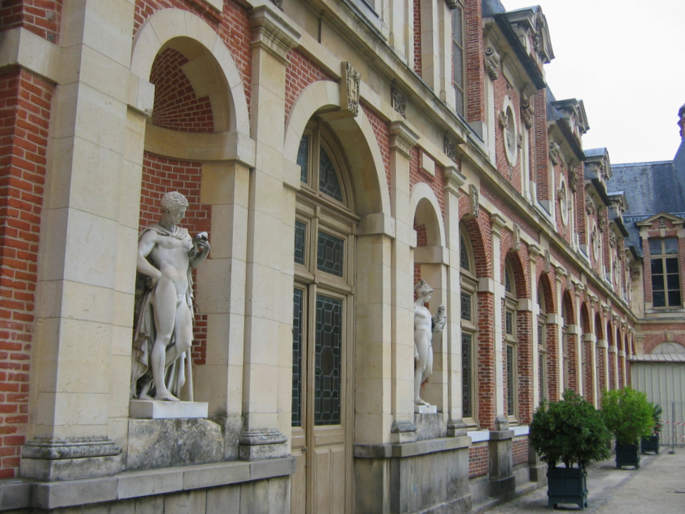 La Galerie des Cerfs au château de Fontainebleau, aspect extérieur